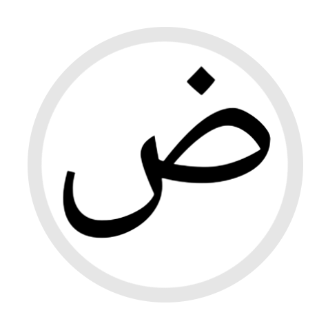 HS Letter (arabic alphabet)